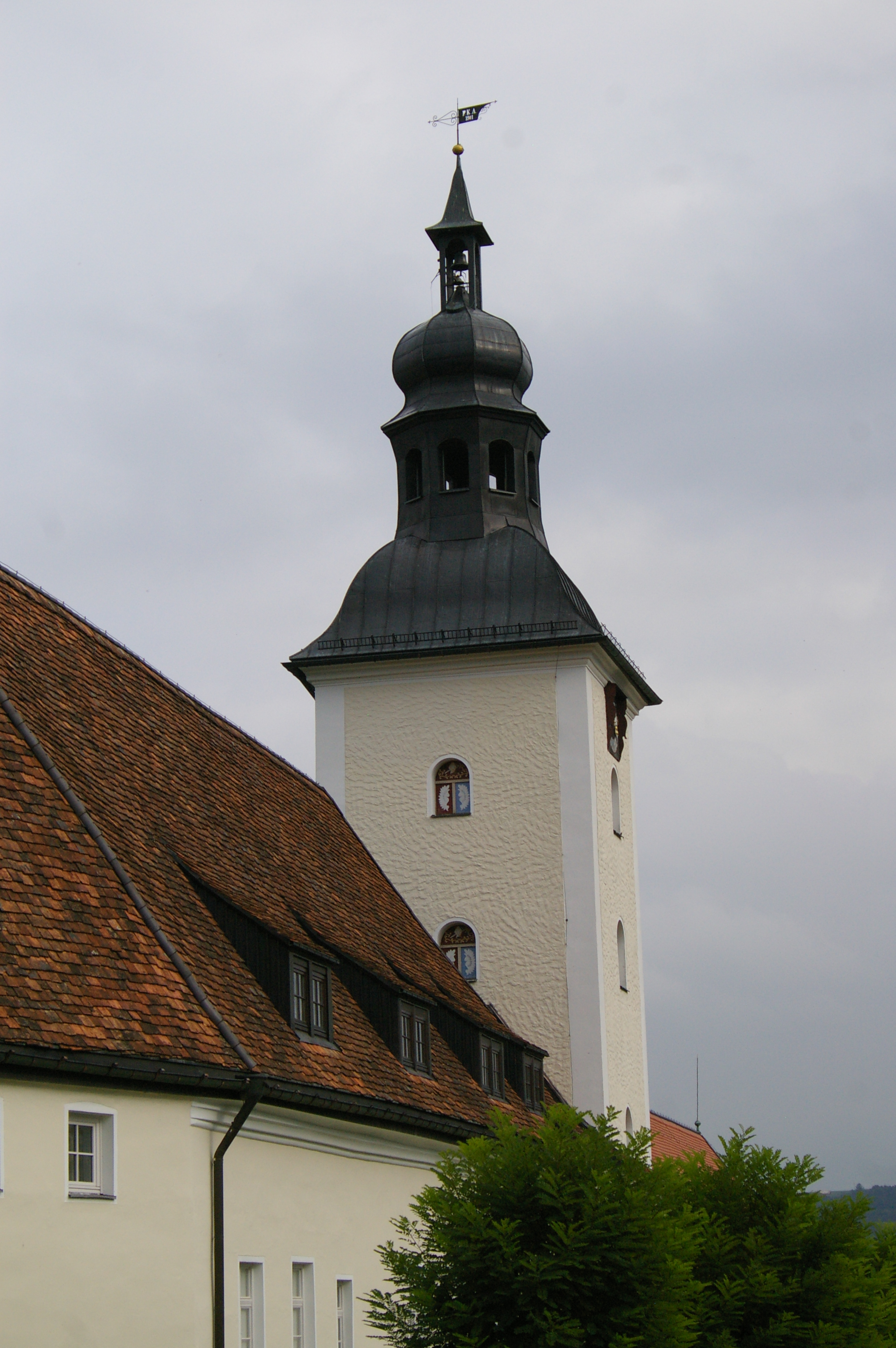 Benedictine abbey Michaelbeuern (Austria)